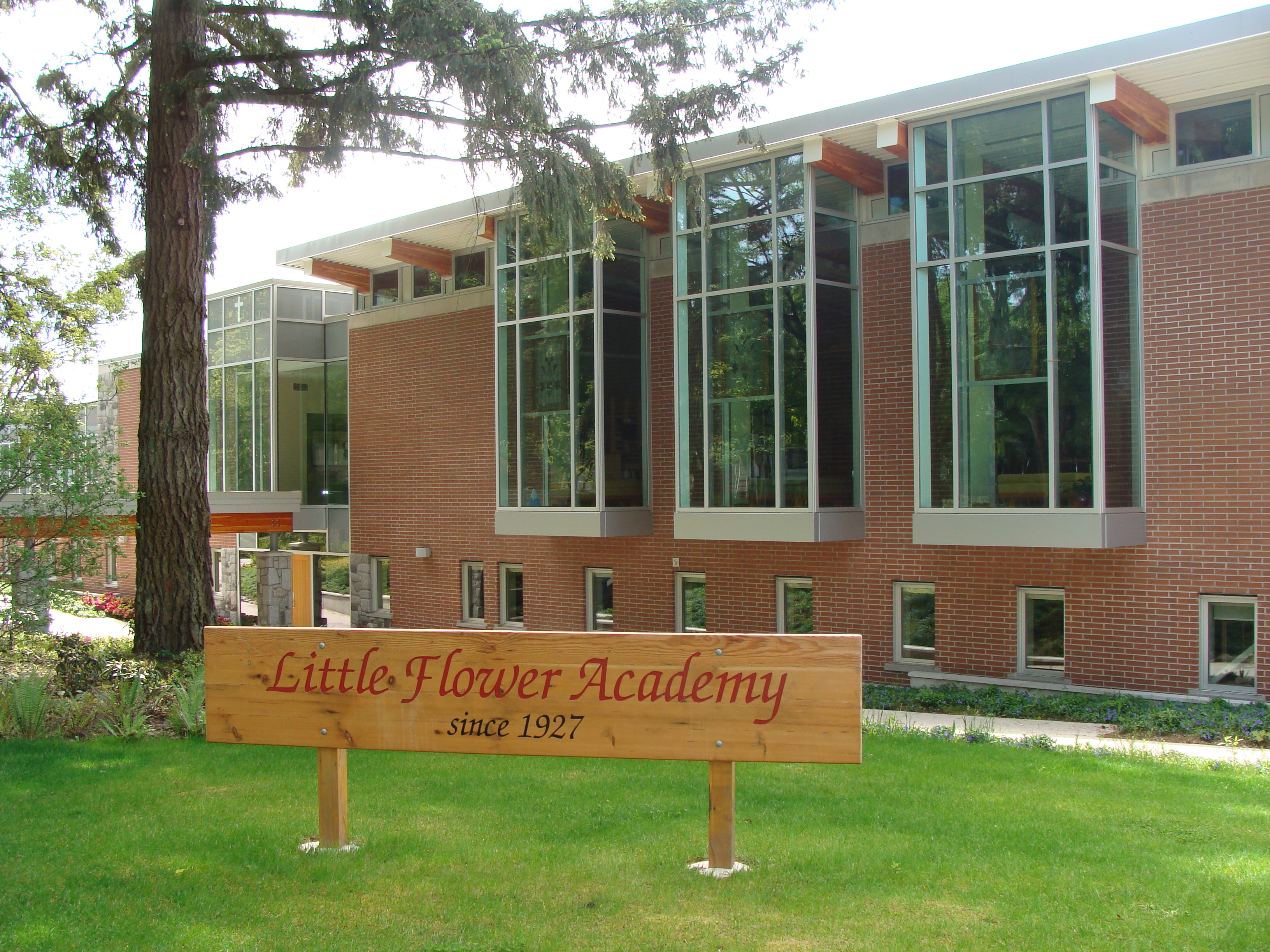 Little Flower Academy's new building & sign, in Vancouver, British Columbia.